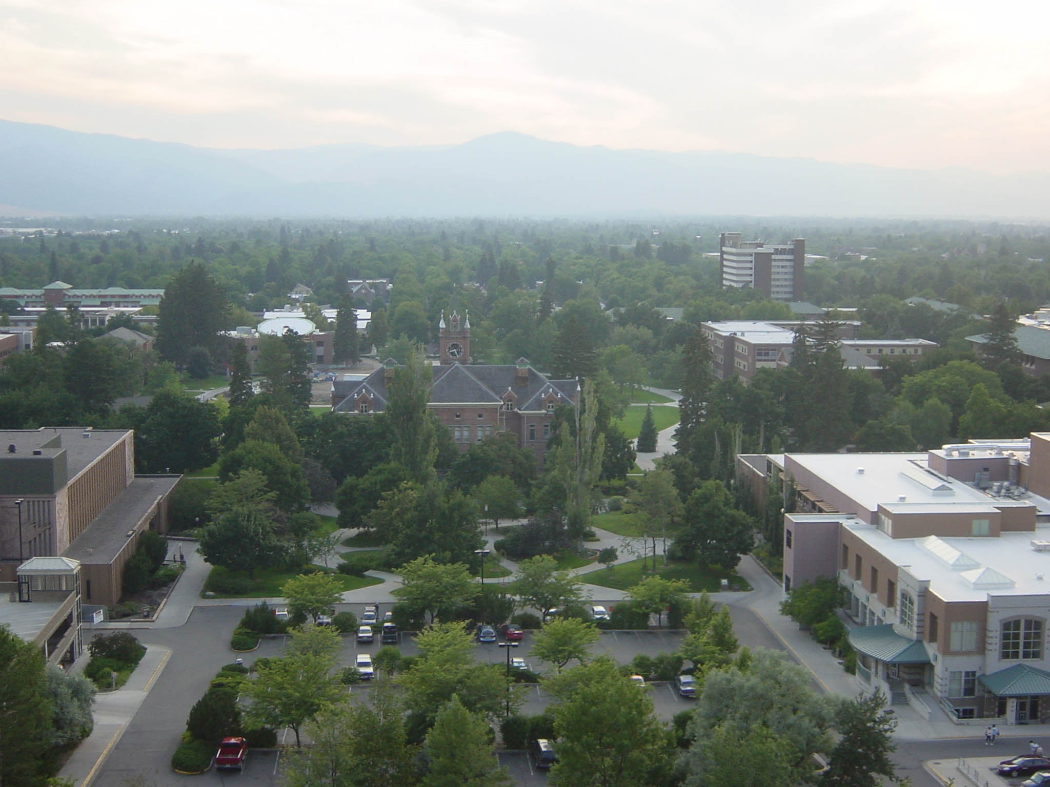 View of the University of Montana from Mount Sentinel